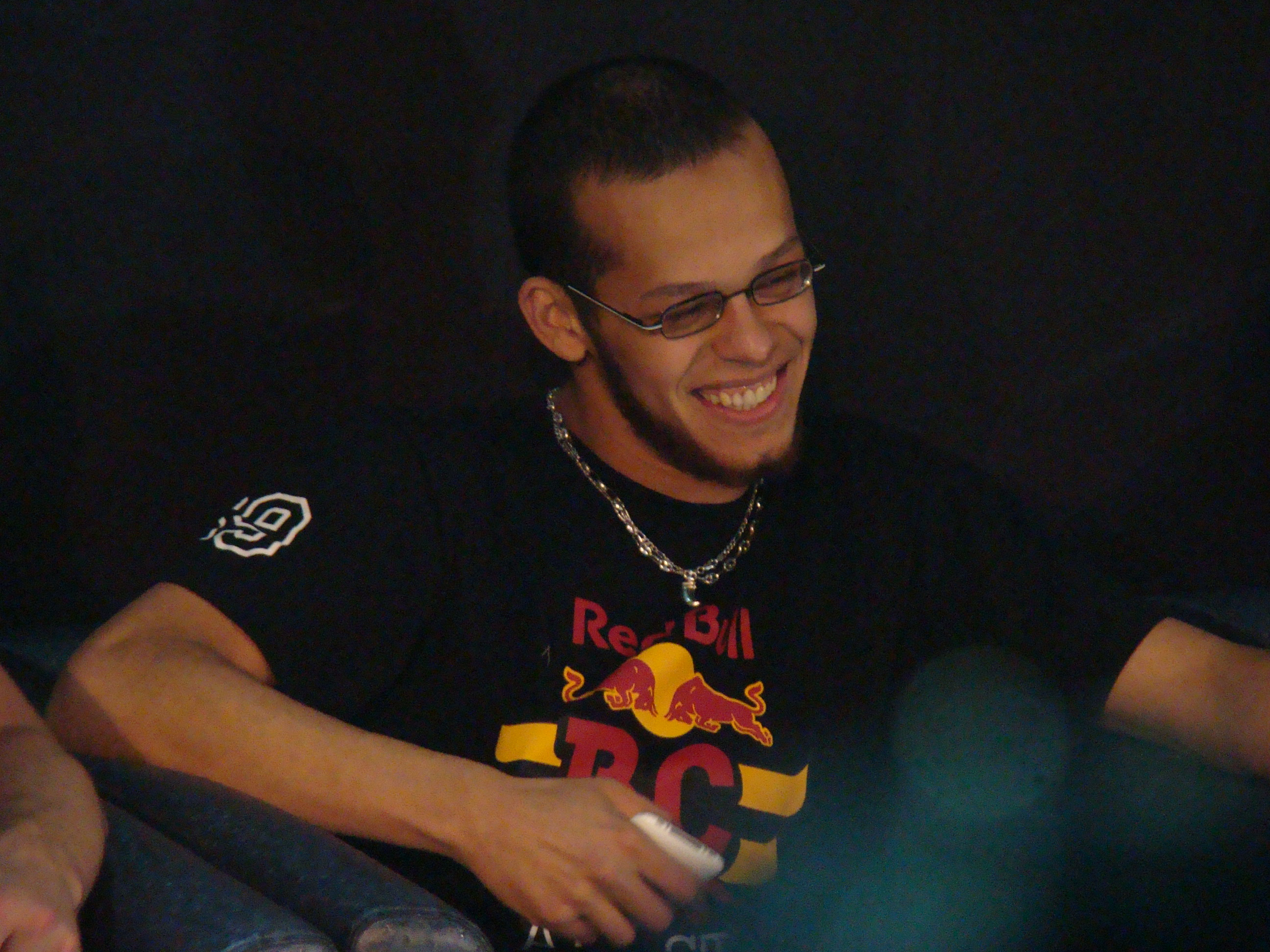 B-boy Lilou (Ali Ramdani) as a part of the Jury of Red Bull BC One Baltic cypher in Riga on May 14th, 2011